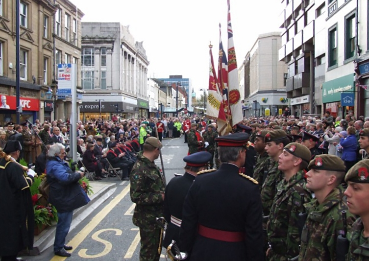 Conferring the Freedom of Huddersfield on the Yorkshire Regiment 25 October 2008.